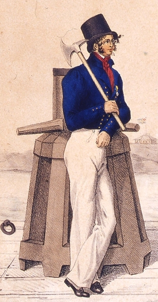 Painting of naval uniform for båtsman.